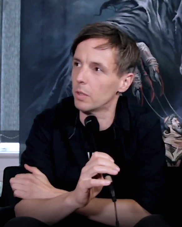 Powerwolf interview 18.05.2018 Napalm Records, Berlin Producer & Director: Janne Vuorela Filming & Editing: Karo Riikola